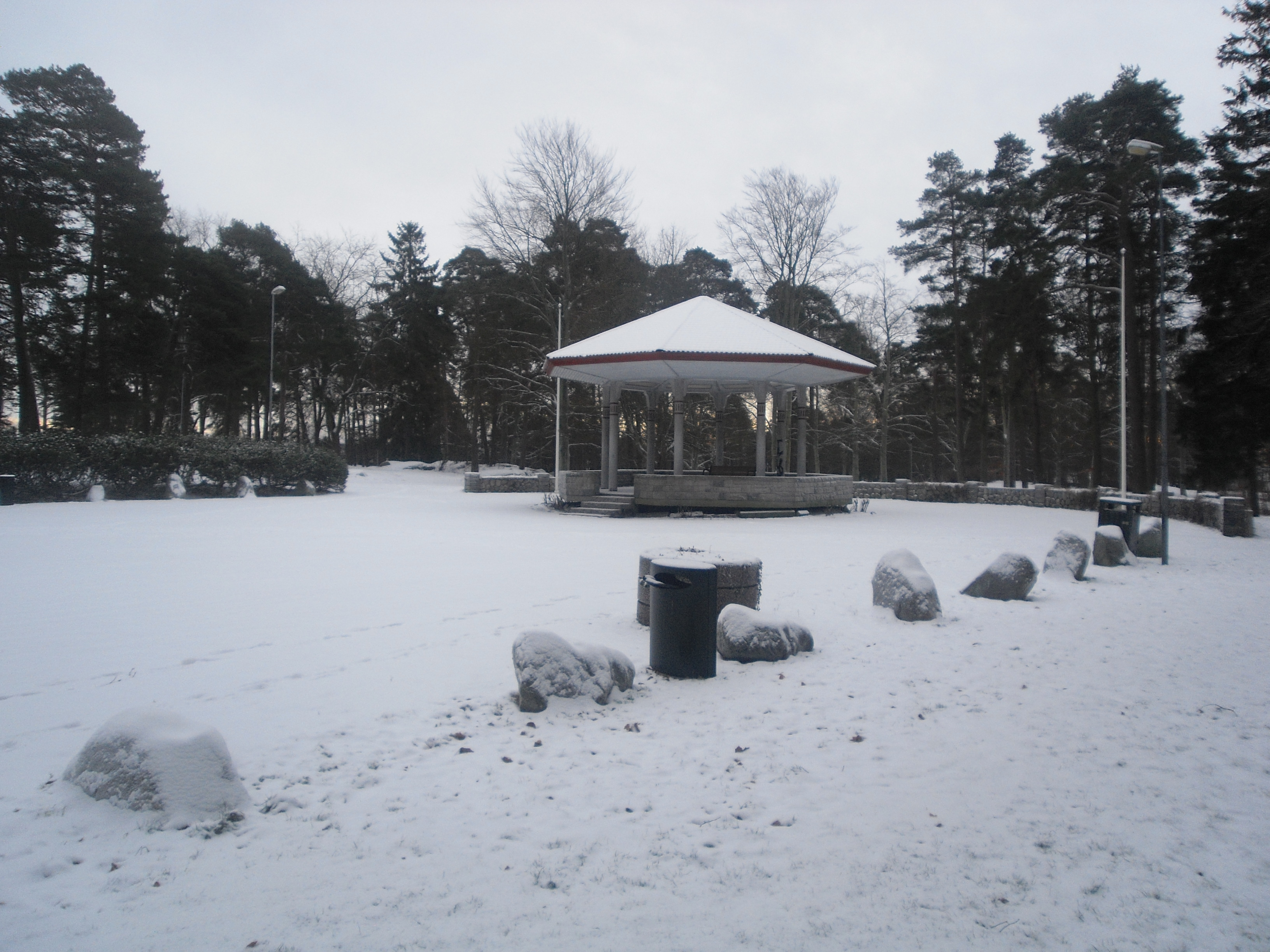 From Kulås park in Sarpsborg.